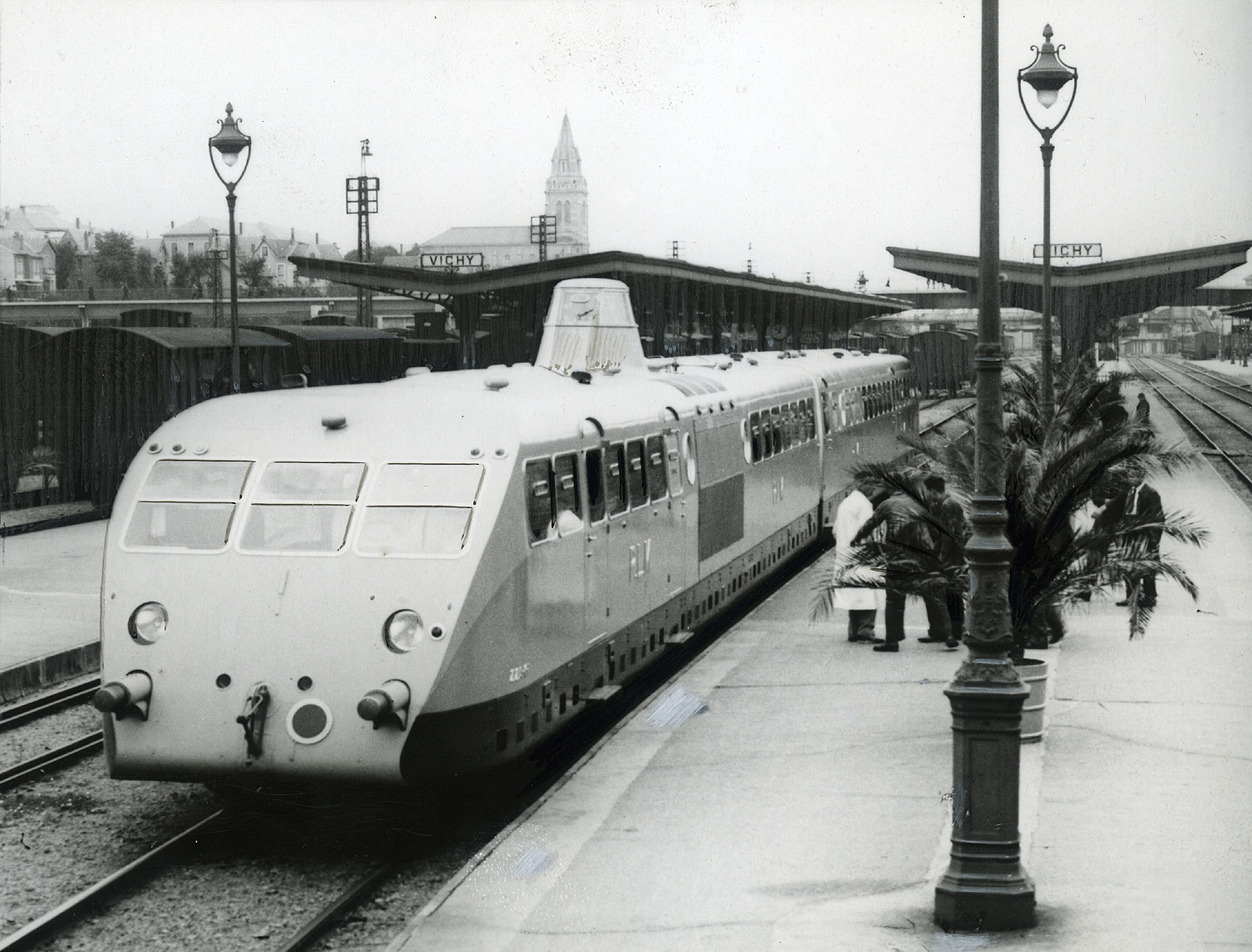 Railcar Bugatti ZZ AK in Vichy